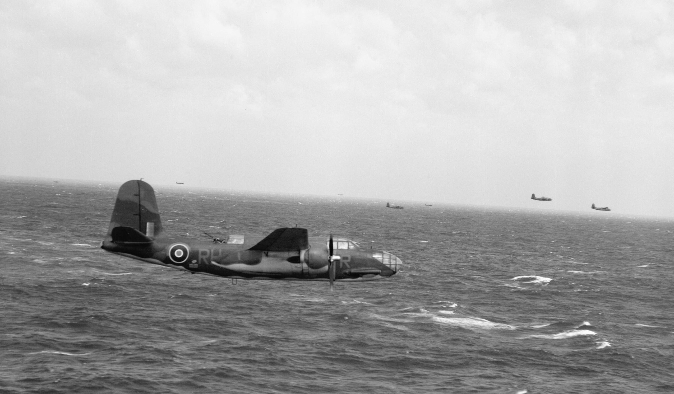 Boston bombers of No. 88 Squadron flying at low level over the North Sea.